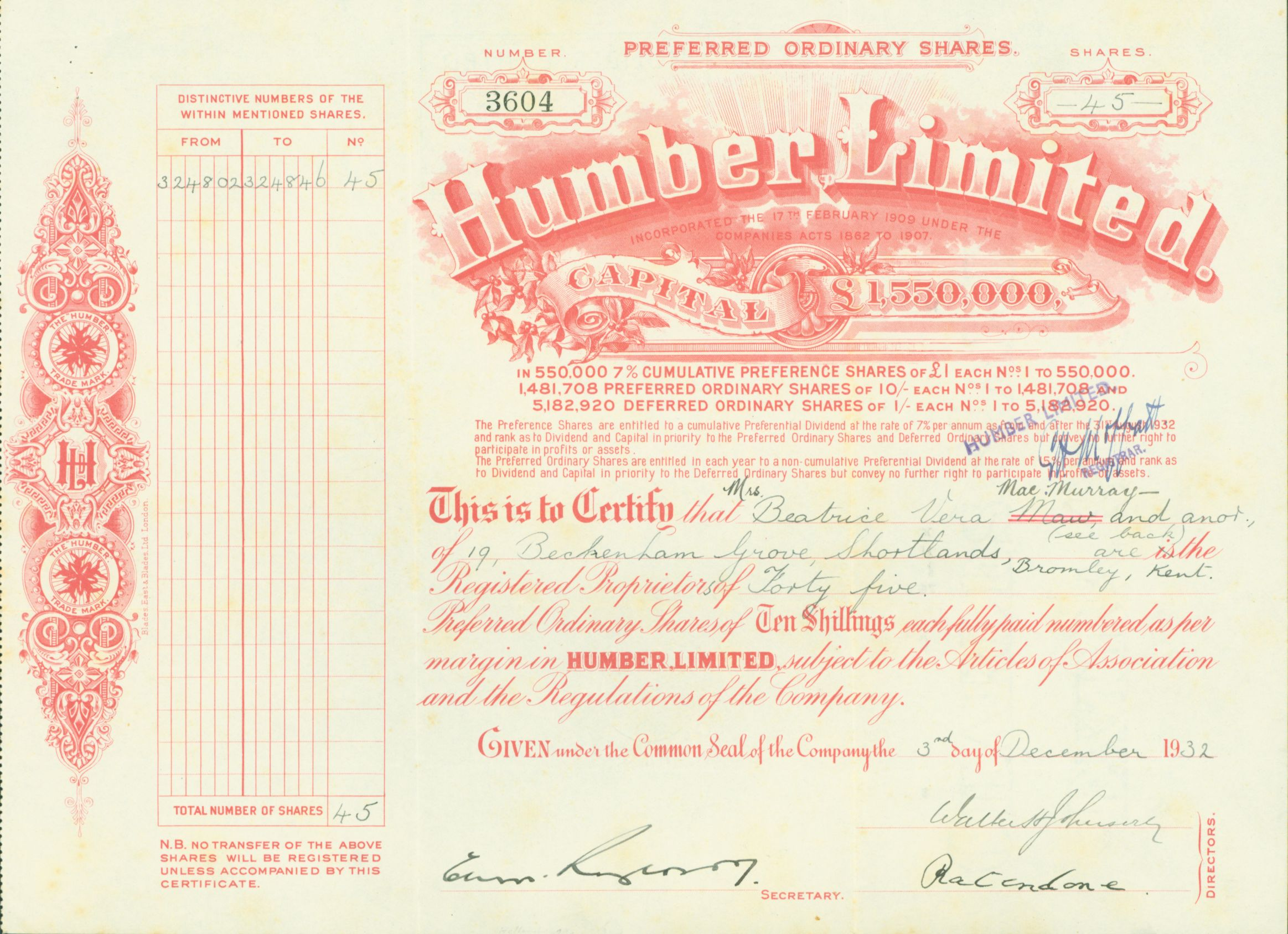 Preferred Ordinary Share of the Humber Ltd., issued 3. December 1932